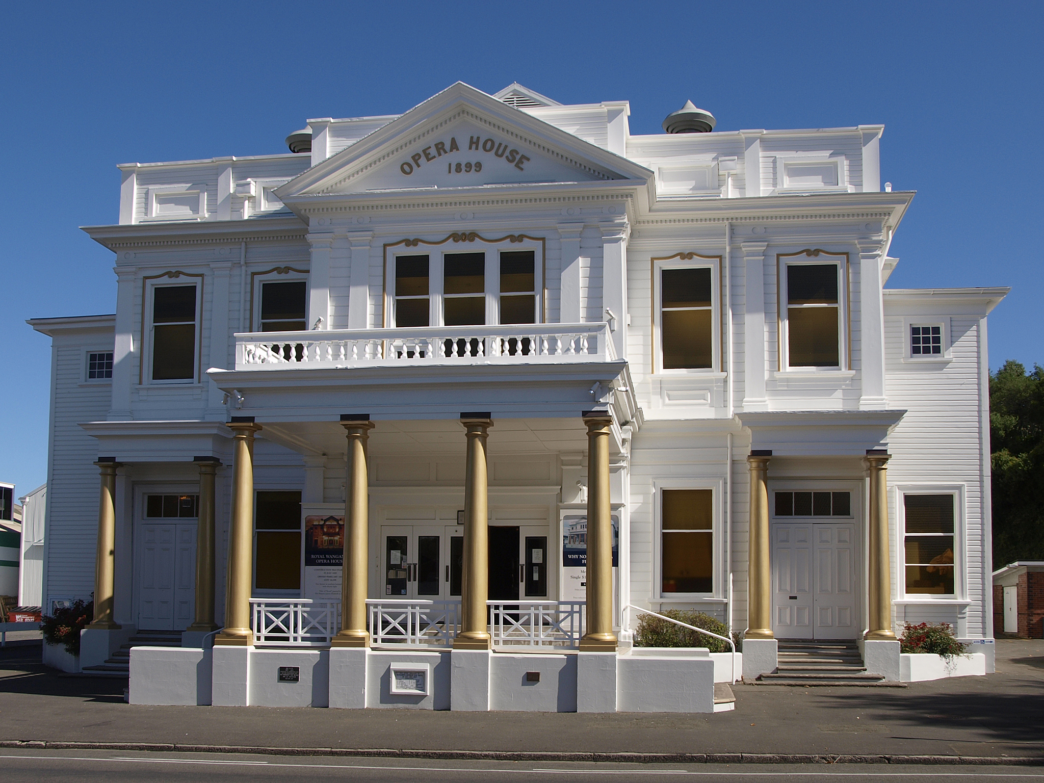 Opera House of Whanganui, New Zealand, build in 1899 (Historic Place Category 1)